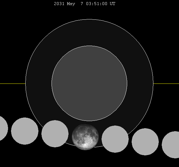 May 2031 lunar eclipse chart of moon's total lunar eclipse path through the earth's shadow. thumb